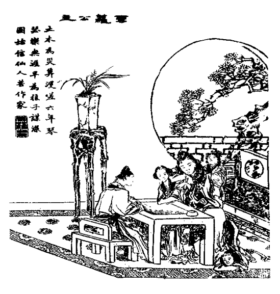 19th-century illustration of a scene from the short story "Princess Yunluo" collected in Strange Tales from a Chinese Studio (1740).